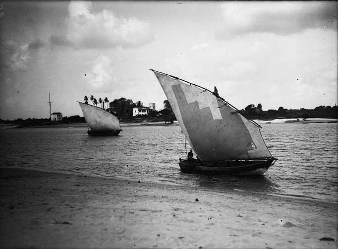 Dhows in Dar es SalaamEesti: Daud Dar es Salaamis